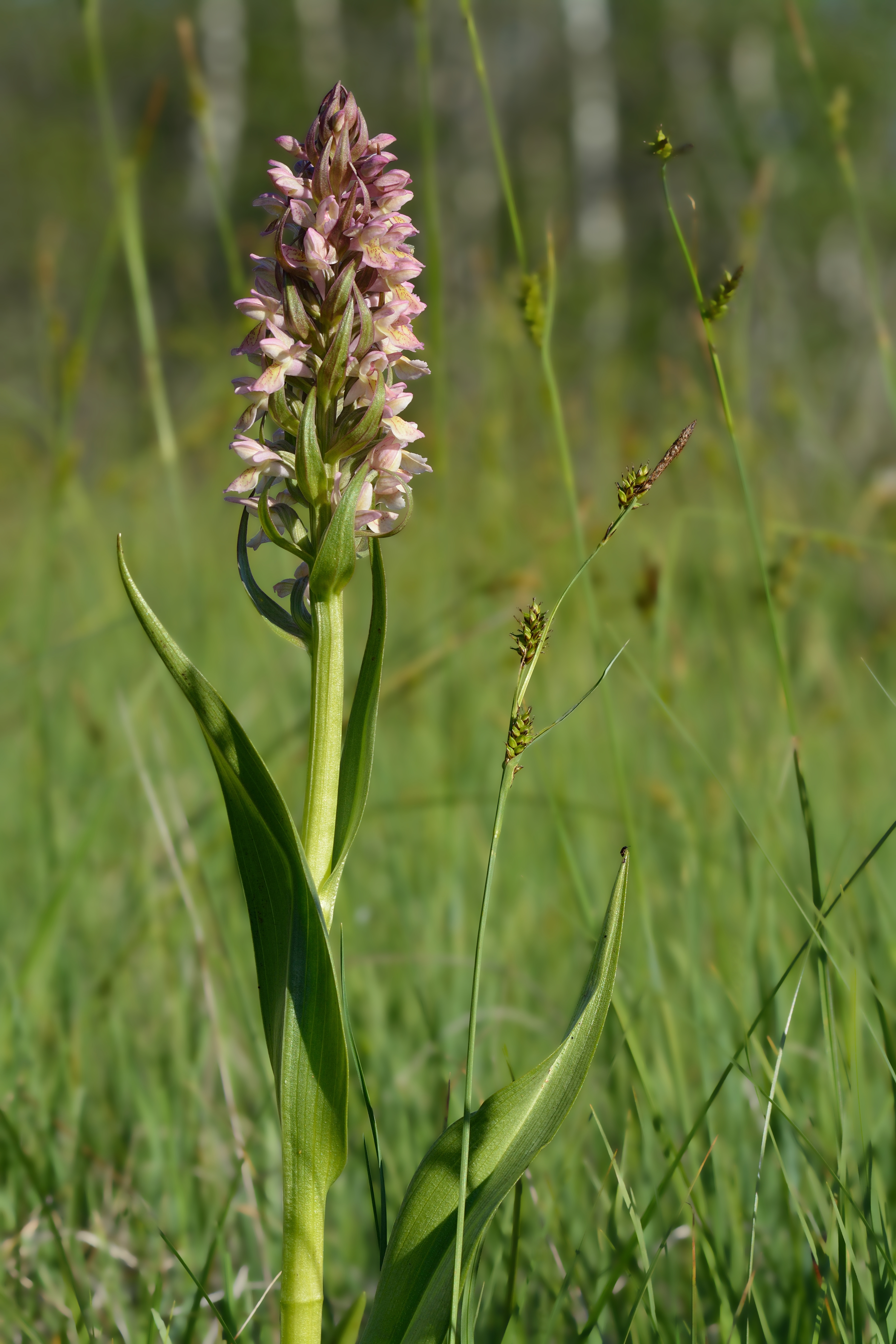 Hybrid (Dactylorhiza incarnata nothosubsp. versicolor) between type subspecies and cream-flowered early marsh orchid and Long-stalked Yellow-sedge (Carex lepidocarpa). Niitvälja Bog, Northwestern Estonia.